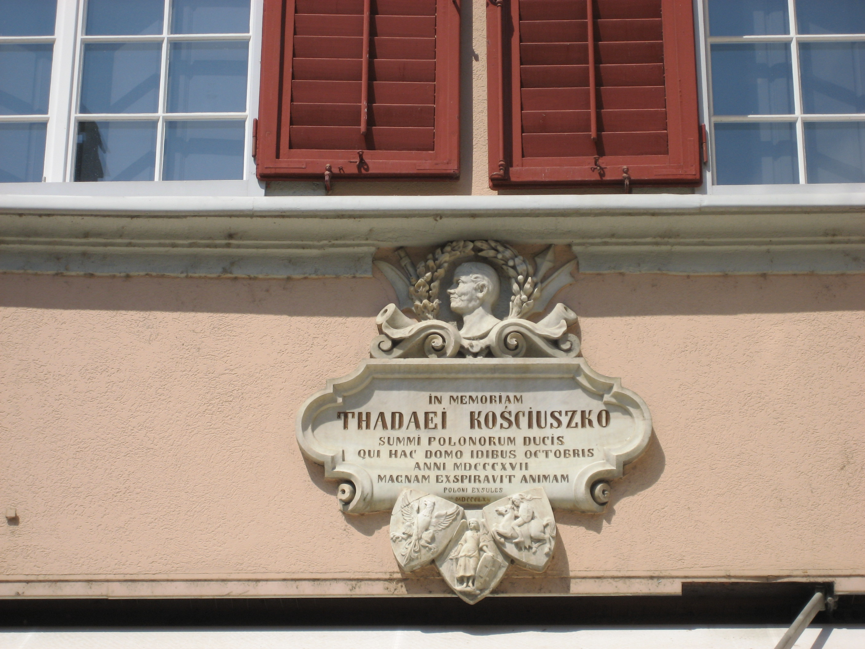 Commemorative plaque on house in Solothurn, Switzerland, installed by "Polish exiles" in 1865. The Latin inscription reads: "In memory of Tadeusz Kosciuszko, supreme leader of the Poles, who in this house in October 1817 gave up his great soul."